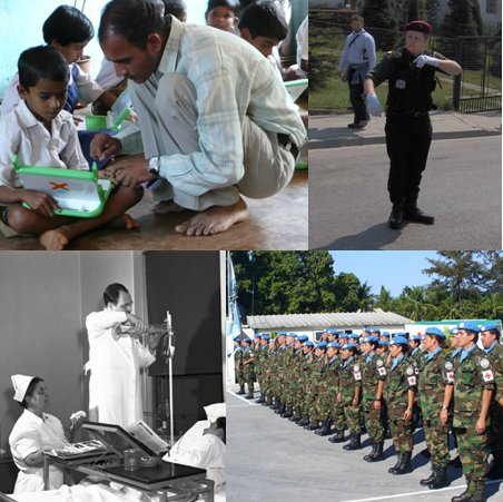 Public service: up-left: Teacher. Up-right: policeman in Polland. Down-left: nurse and doctor un USA. Down-right: Argentinean cascos azules in Haiti (own picture). Polský policista v Krakově (Polnischer Polizist in Krakau, Polish policeman in Krakow)New Orleans, 1942. Doctor at Marine Hospital pours fluid into an IV for a patient in bed as a nurse observes. Original caption for photo set: "The massive drip treatment for syphilis, the object of lengthy research by doctors of the U.S. Public Health Service, may be the answer to America's venereal disease control problem. These photographs show various operations in the treatment. Doctors of the Marine Hospital are assisted by technicians and nurses employed by the WPA. Interior."